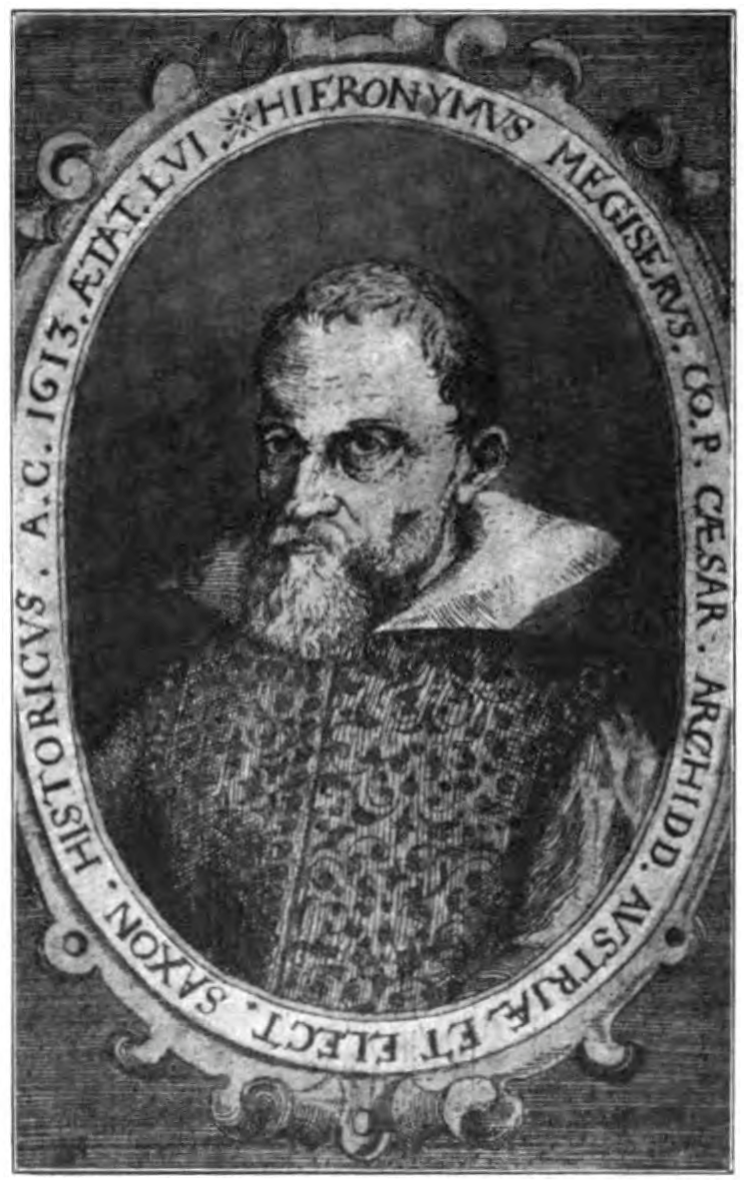 Hieronymus Megiser (circa 1554- circa 1619), Austrian humanist, linguist and historian